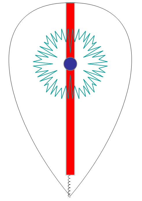 Nitrogen Laser. Composed from various sources on the Web and in the Journal on Scientific Instruments, by me using my computer. Nothing was electronically copied. Everthing was altered. 2005-08. The star shape of one spark gap electrode is not clearly visible